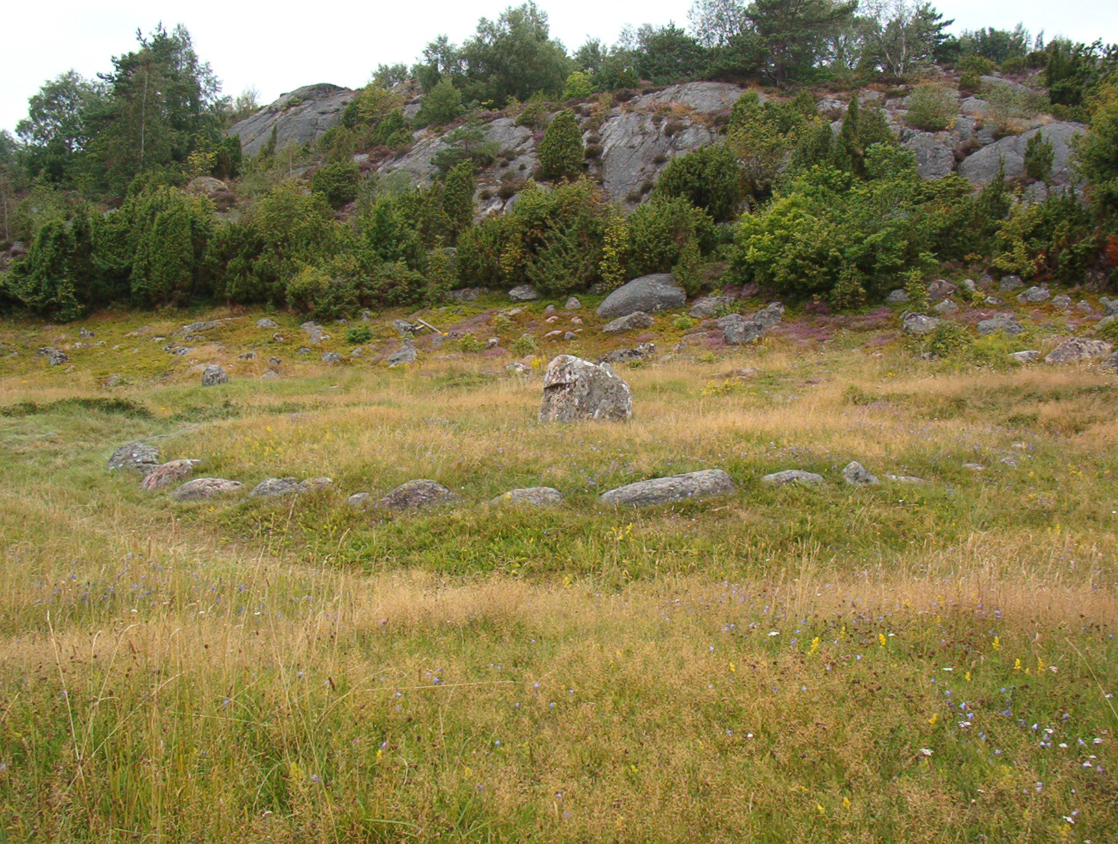 An Iron Age grave on the gravefield at Pilane (RAÄ-nr Klövedal 105:1) in Klövedal parish on the island Tjörn, Tjörn municipality, Bohuslän, Västra Götaland county, Sweden.